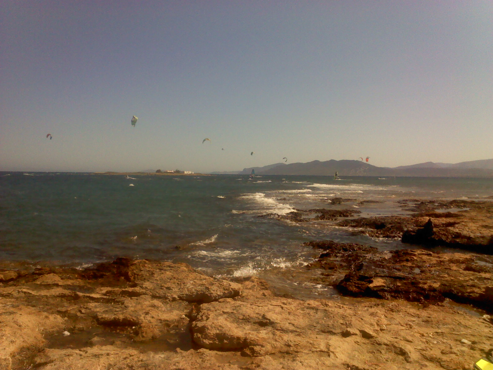 Surf Nissakia Artemidas